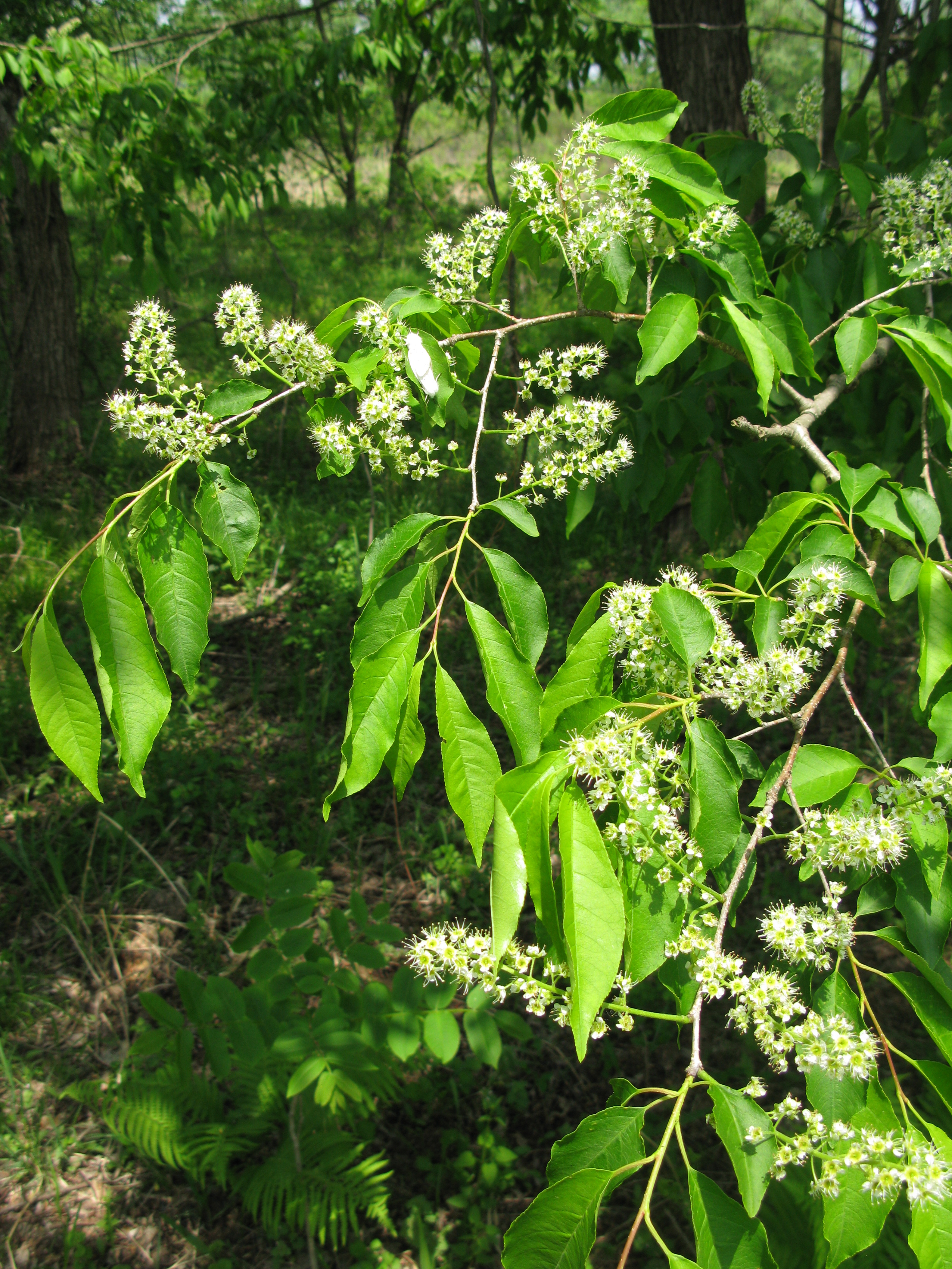 Prunus buergeriana, Aizu area, Fukushima pref., Japan